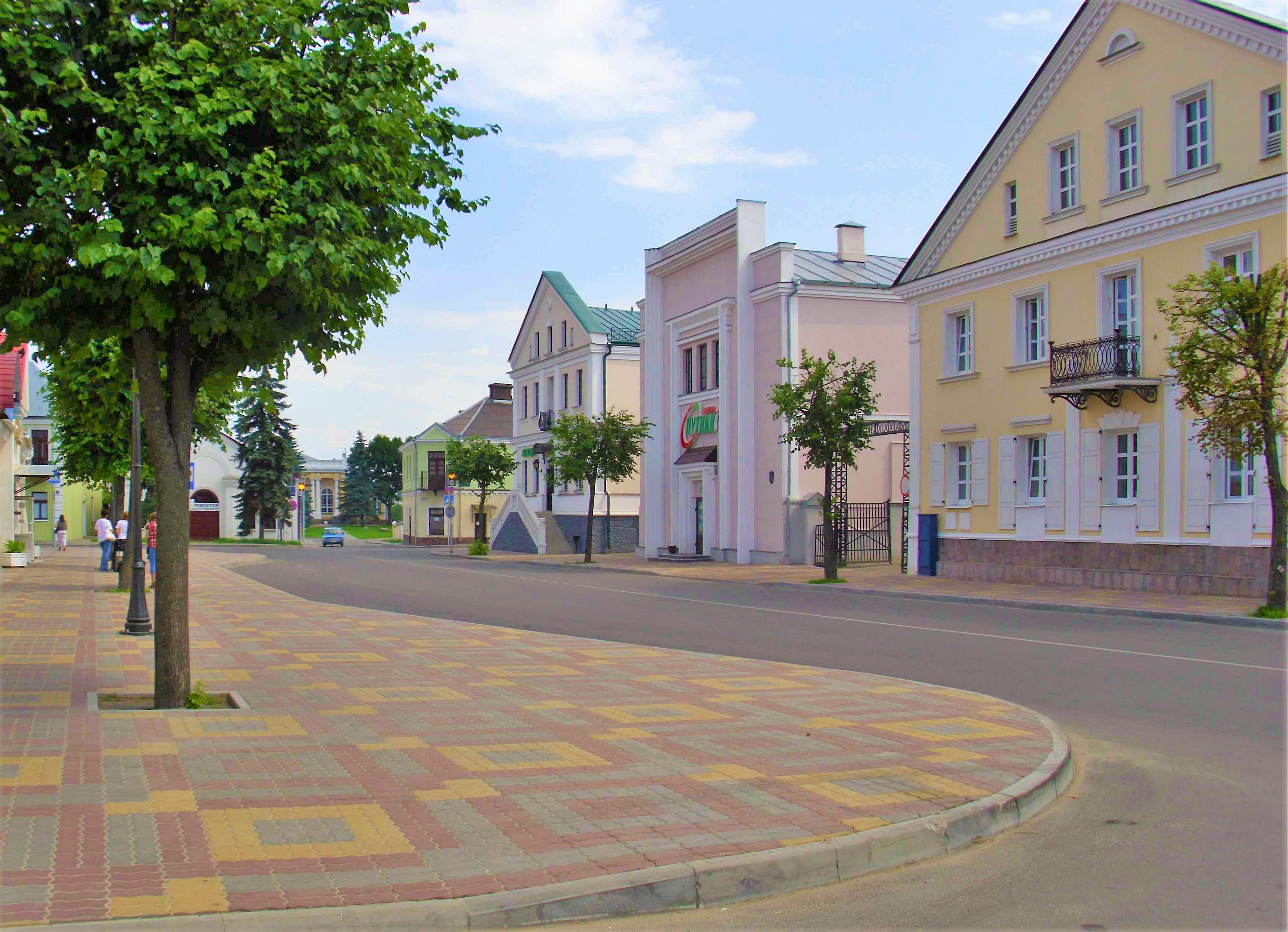 Freedom sq. in Kobryn, Belarus